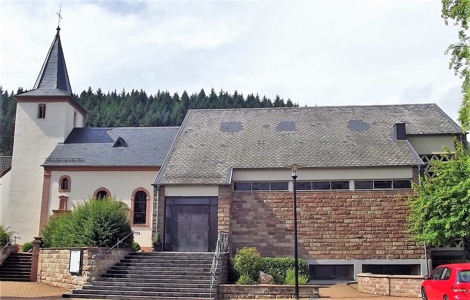 Exerior of the roman catholic church in Rimlingen, Saarland, Germany